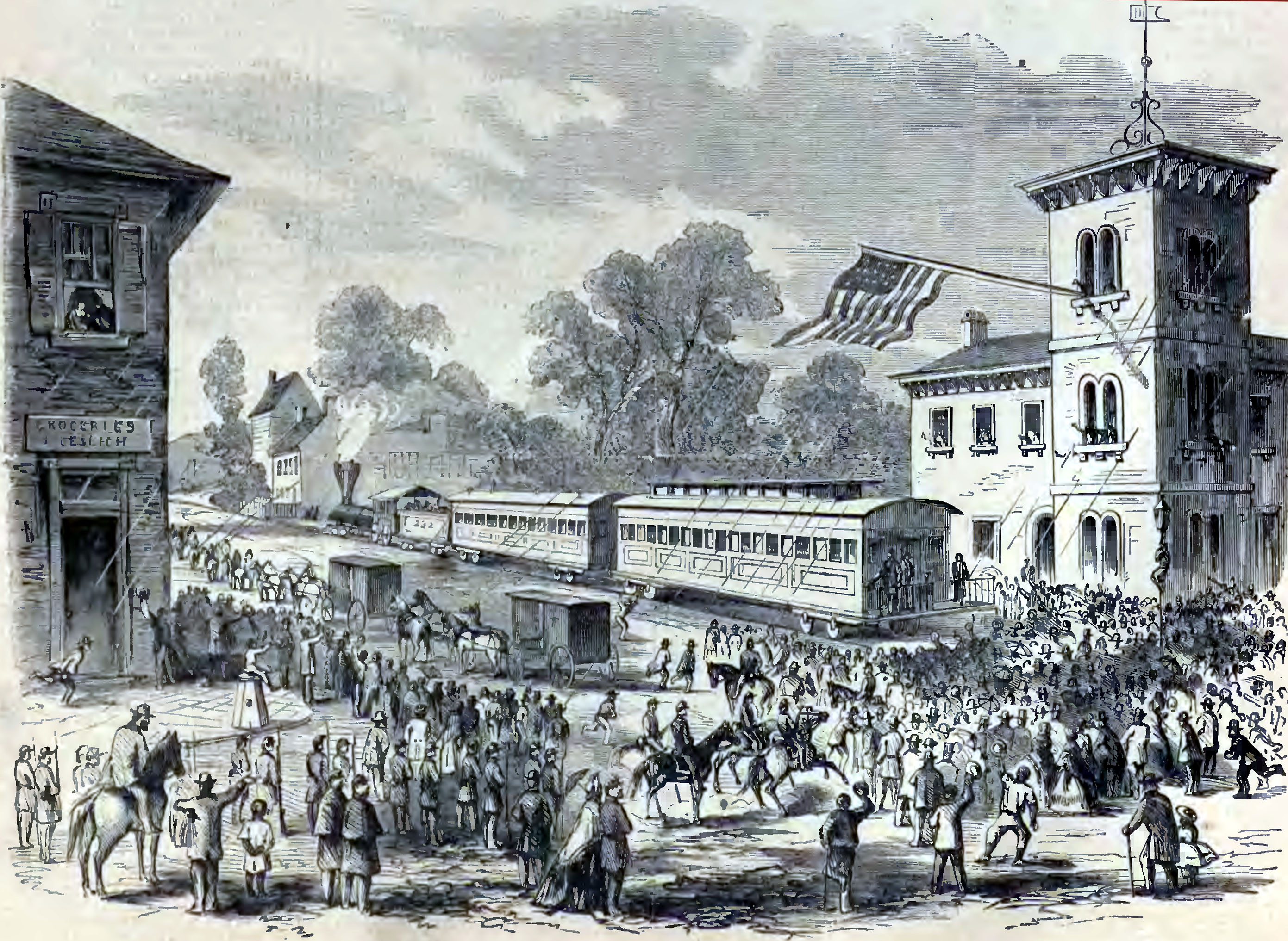 "The President's Visit to the Army of the Potomac--Arrival at the Station at Frederick." Address by President Abraham Lincoln on October 4, 1862, next to the Baltimore and Ohio Railroad Station, South Market St., Frederick, Maryland. Station built 1855.